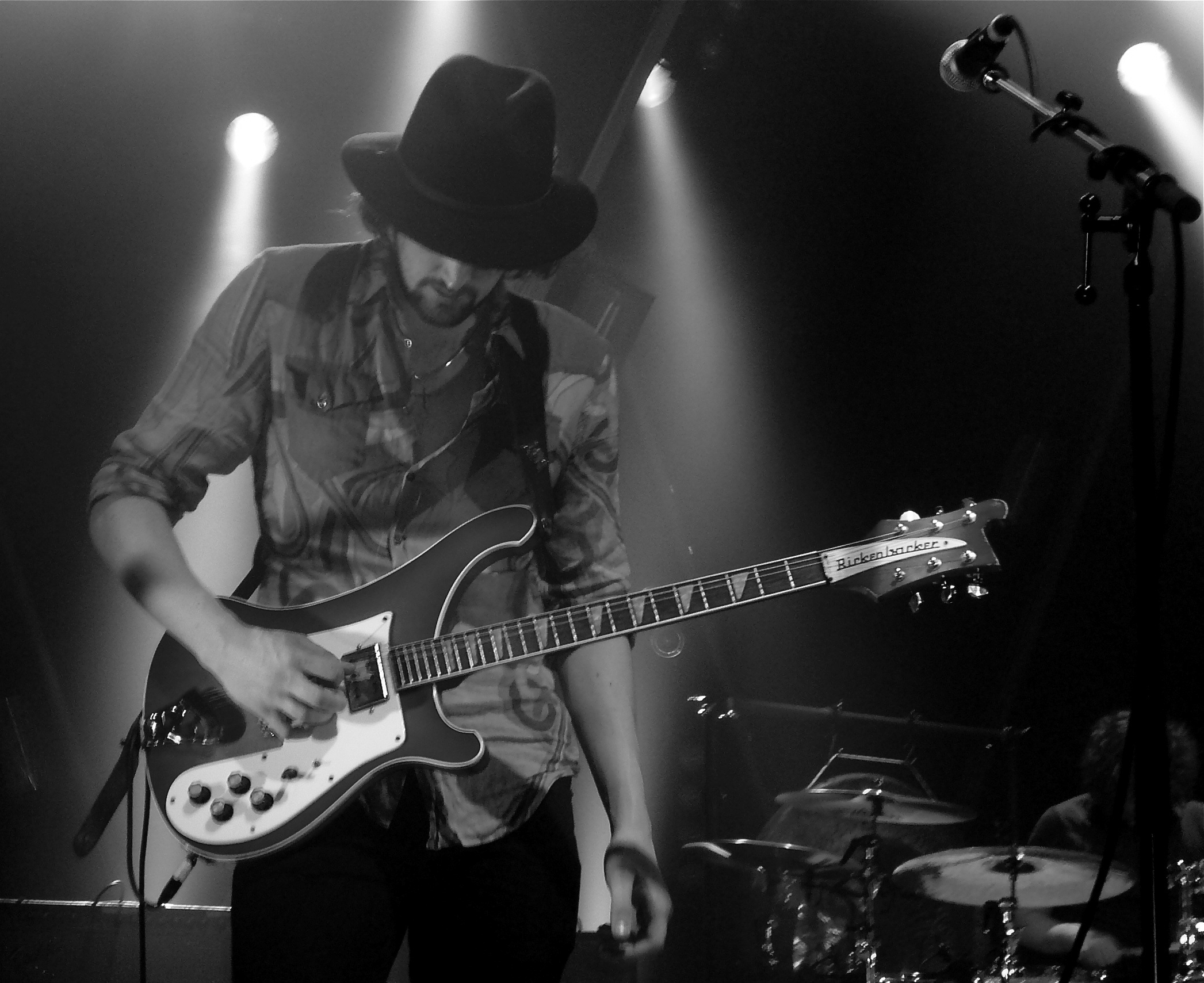 Sergio Pizzorno live with Kasabian in 2009